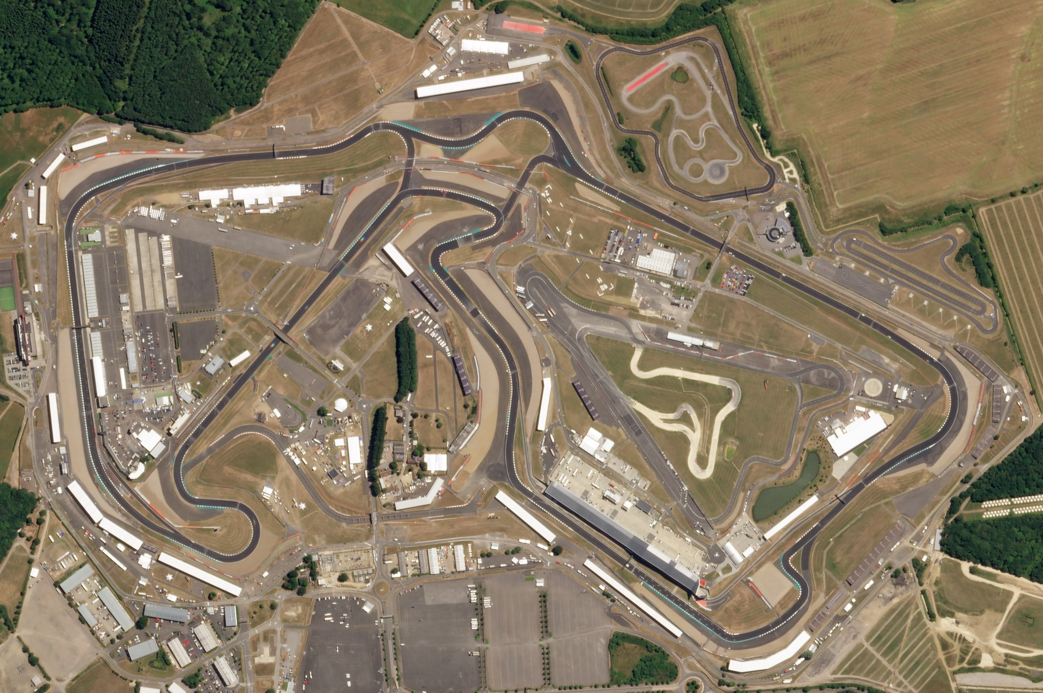 Silverstone Circuit, motor racing circuit in England located next to the Northamptonshire villages of Silverstone and Whittlebury and the current home of the British Grand Prix. Image taken on July 2, 2018, by a Planet Labs SkySat satellite.